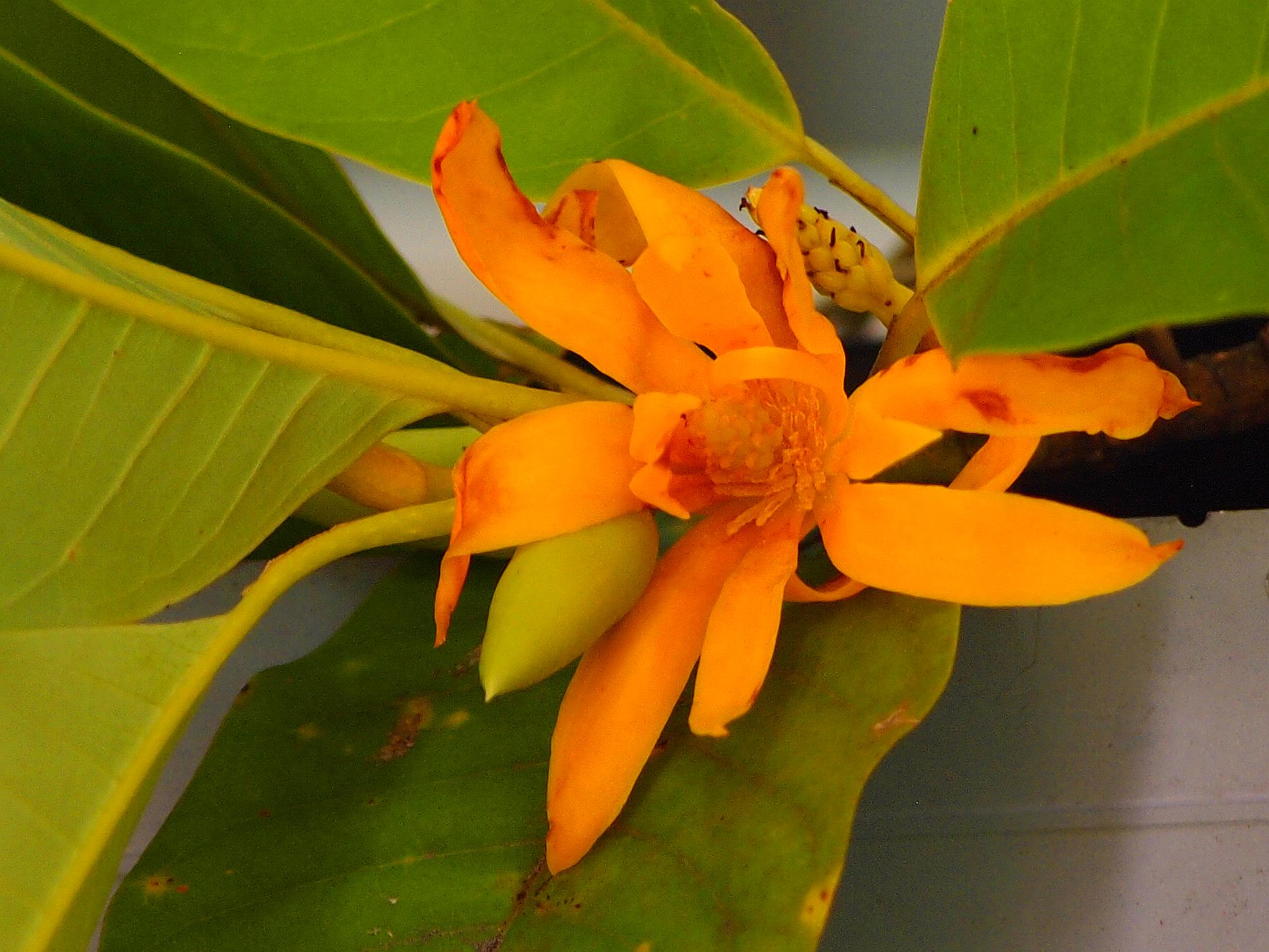 Michelia champaca or cempaka kuning in Kuala Lumpur, Malaysia